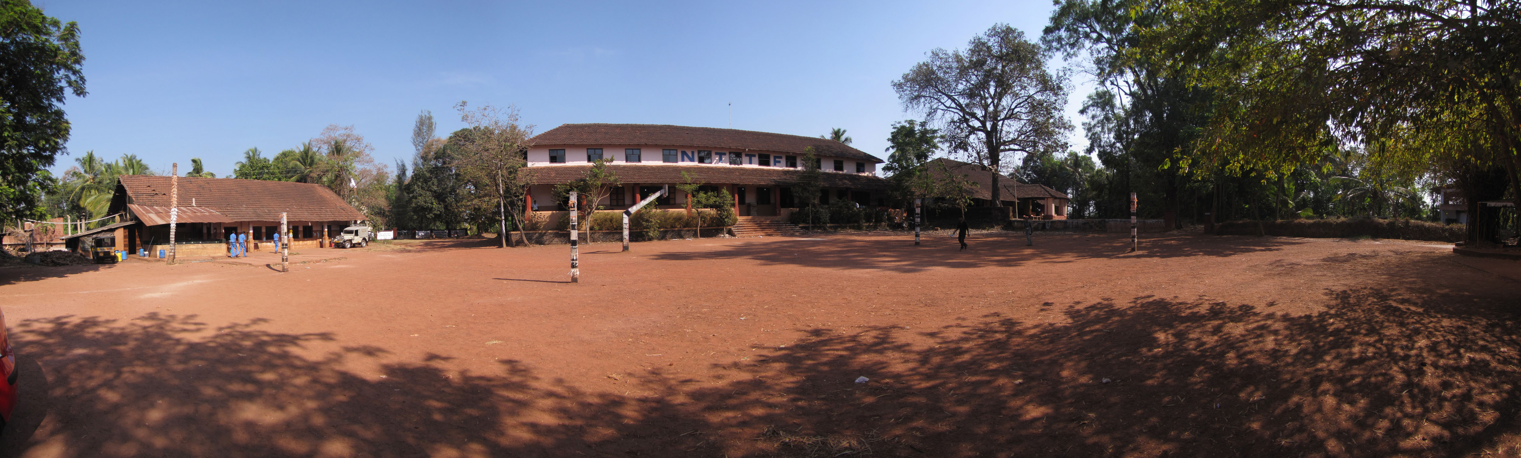 Nettur Technical Training Foundation in Tellichery, a panoramic view